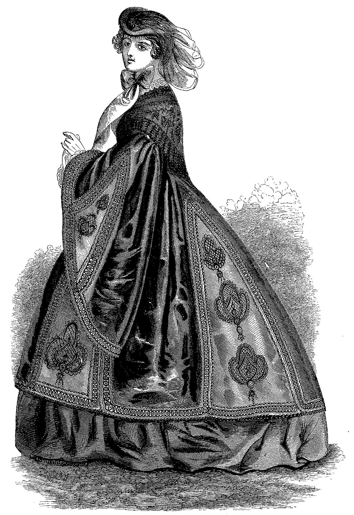 "Spring Pardessus, No. 2", fashion plate from Harper's Monthly Magazine, 1861 Previous page says "Fashions for May. Furnished by Mr. G. Brodie, 300 Canal Street, New York, and drawn by VOIGT from actual articles of Costume." This page adds, "WE illustrate two styles of Spring Pardessus, which are among the most pleasing of the season. They are made of silk of two colors, and ornamented with passamenterie and lace."